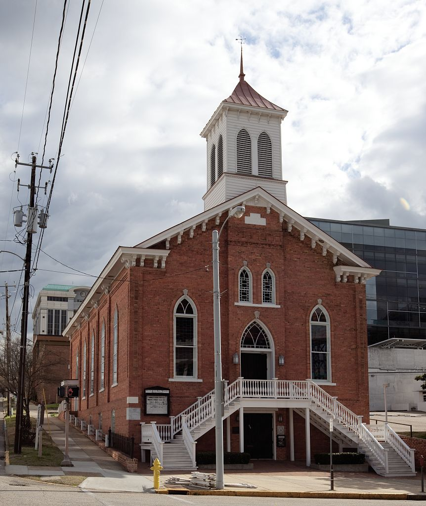 Dexter Avenue King Memorial Baptist Church, Montgomery, Alabama.